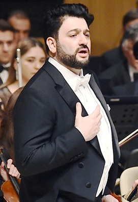 Yusif Eyvazov 2019